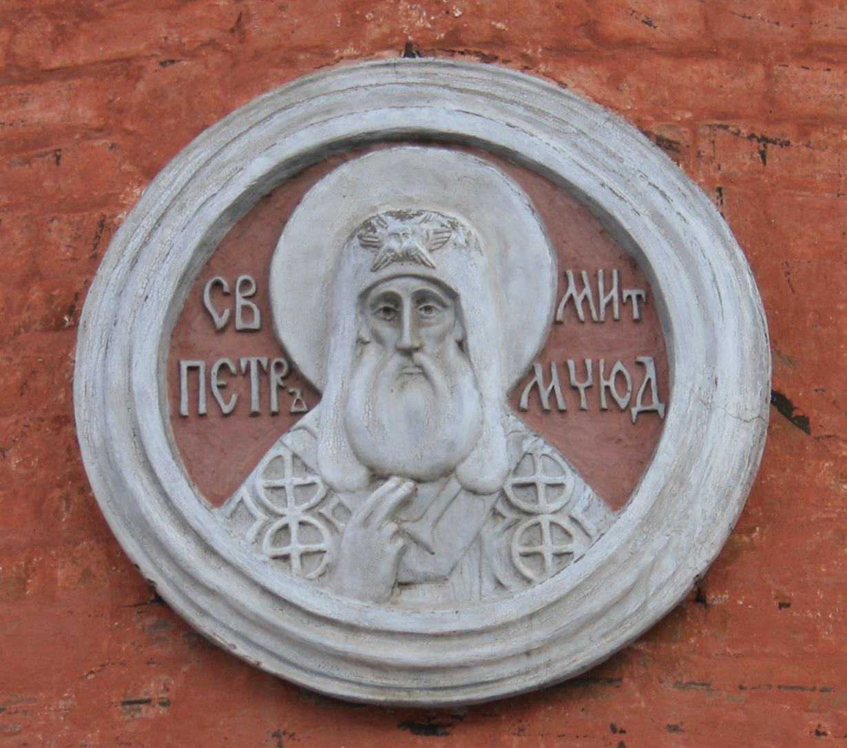 Vysokopetrovsky Monastery, Bas-relief on Cathedral of St. Peter